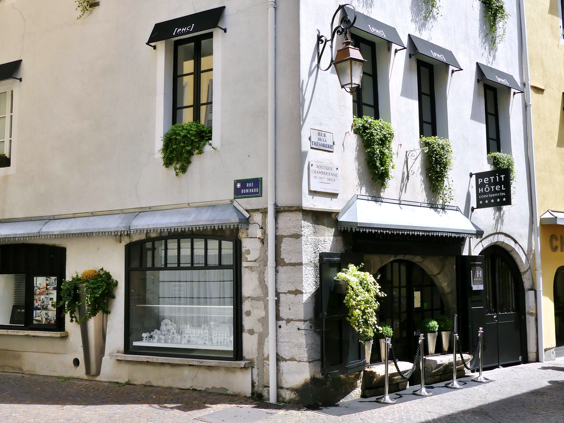 Sight of the Petit Hôtel Confidentiel hotel, the only 5-star hotel in Chambéry, Savoie, France. This hotel was elected Best 5-star hotel of France by Trivago website in November 2016.